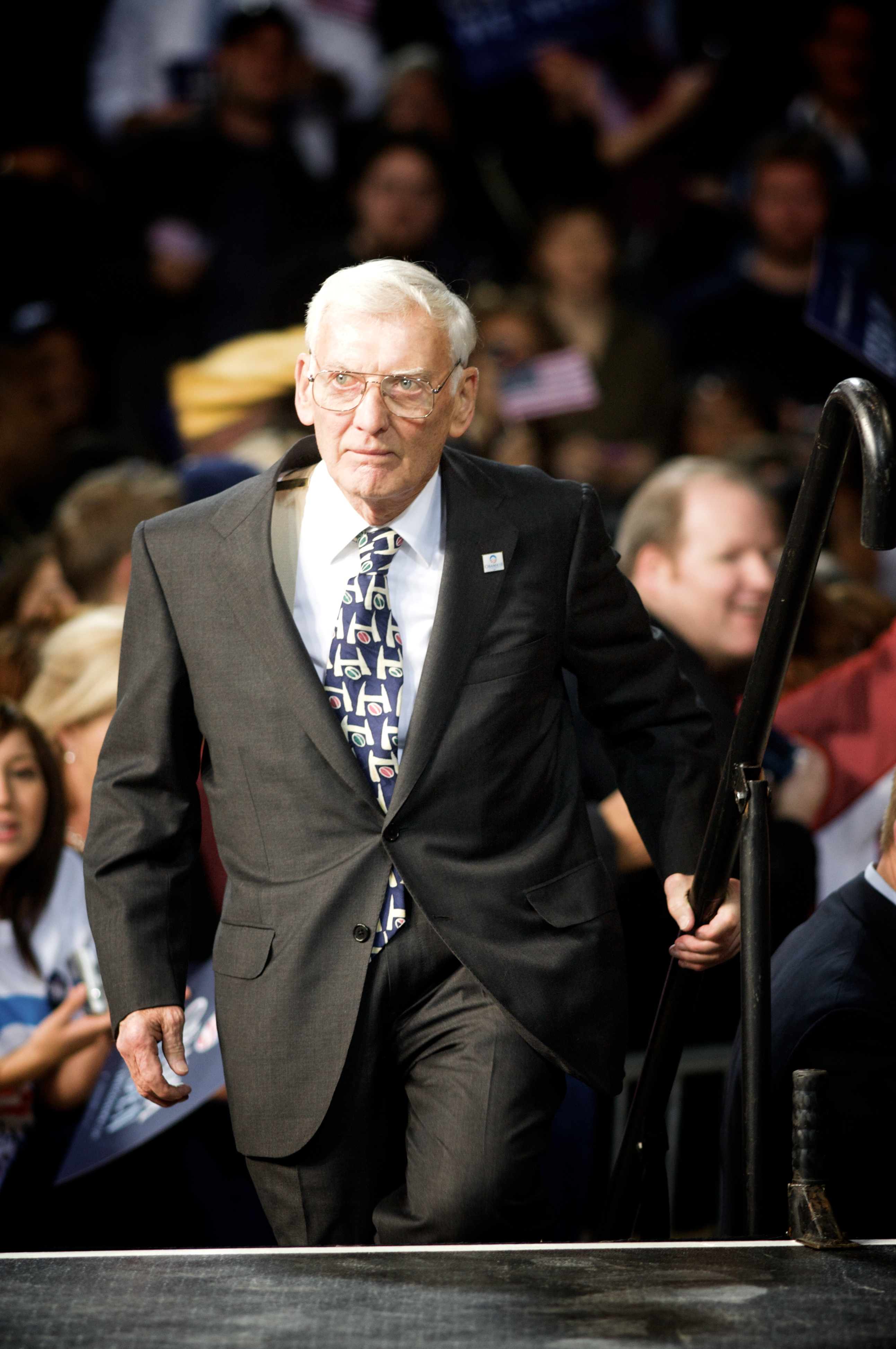 Pittsburgh Steelers owner Dan Rooney